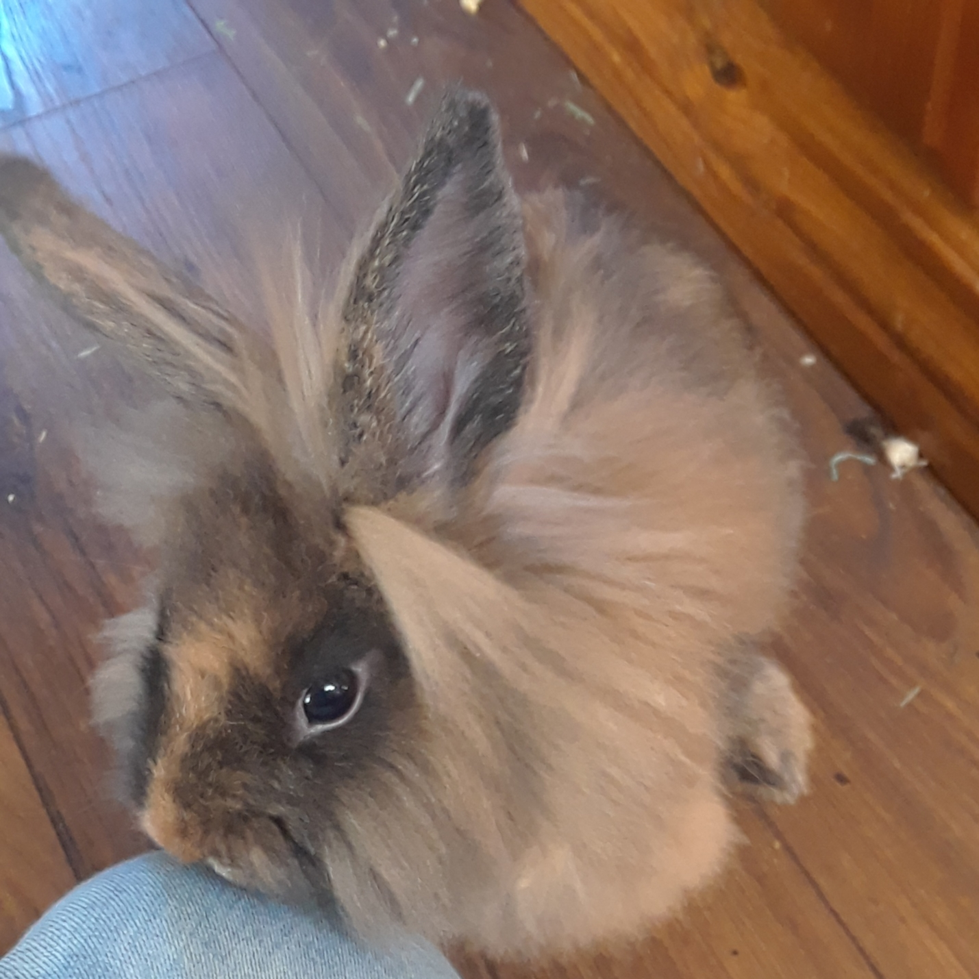 A three month old calico Lionhead rabbit.